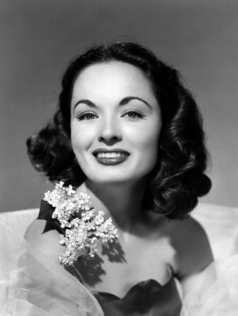 Promotional photograph of actor Ann Blyth (1952)